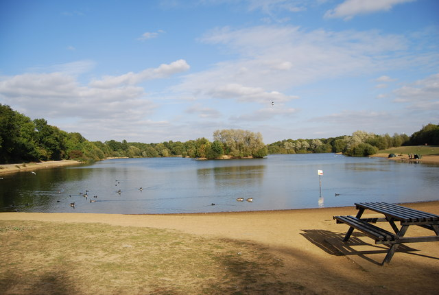 Barden Lake, Haysden Country Park An old gravel pit, quarried during the 1970s & 80s. Now a popular dog walking area & wildfowl refuge. Also good for fishing, especialy Chub.